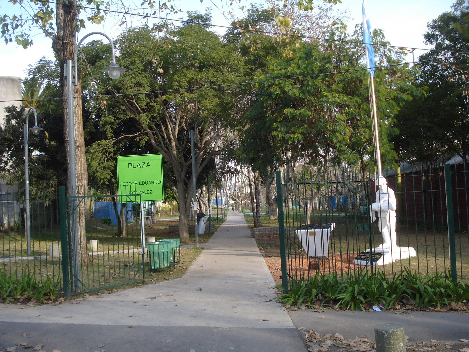 Héctor Eduardo González Square in Florida, Vicente López, Buenos Aires province, Argentina.